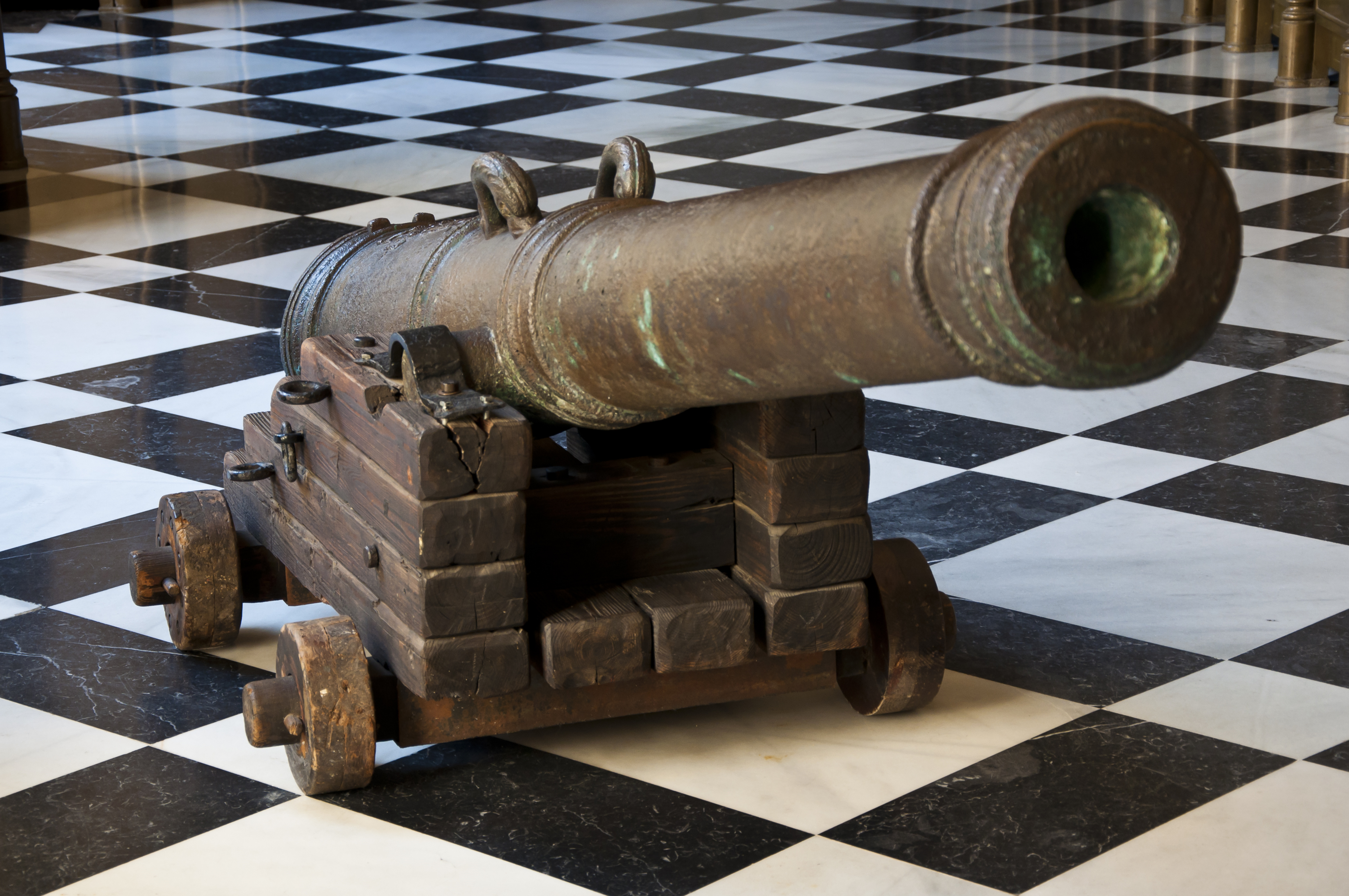 Gun of the Spanish ship "Nuestra Señora de Atocha" at the Archivo General de Indias" in Seville, Spain